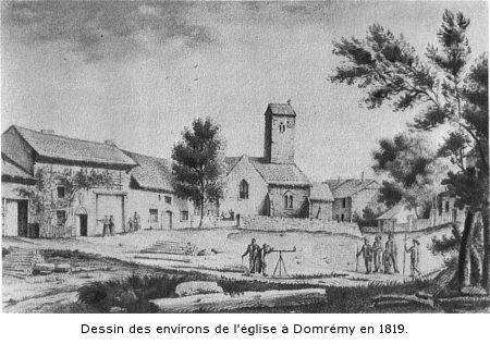 Domremy church in 1819